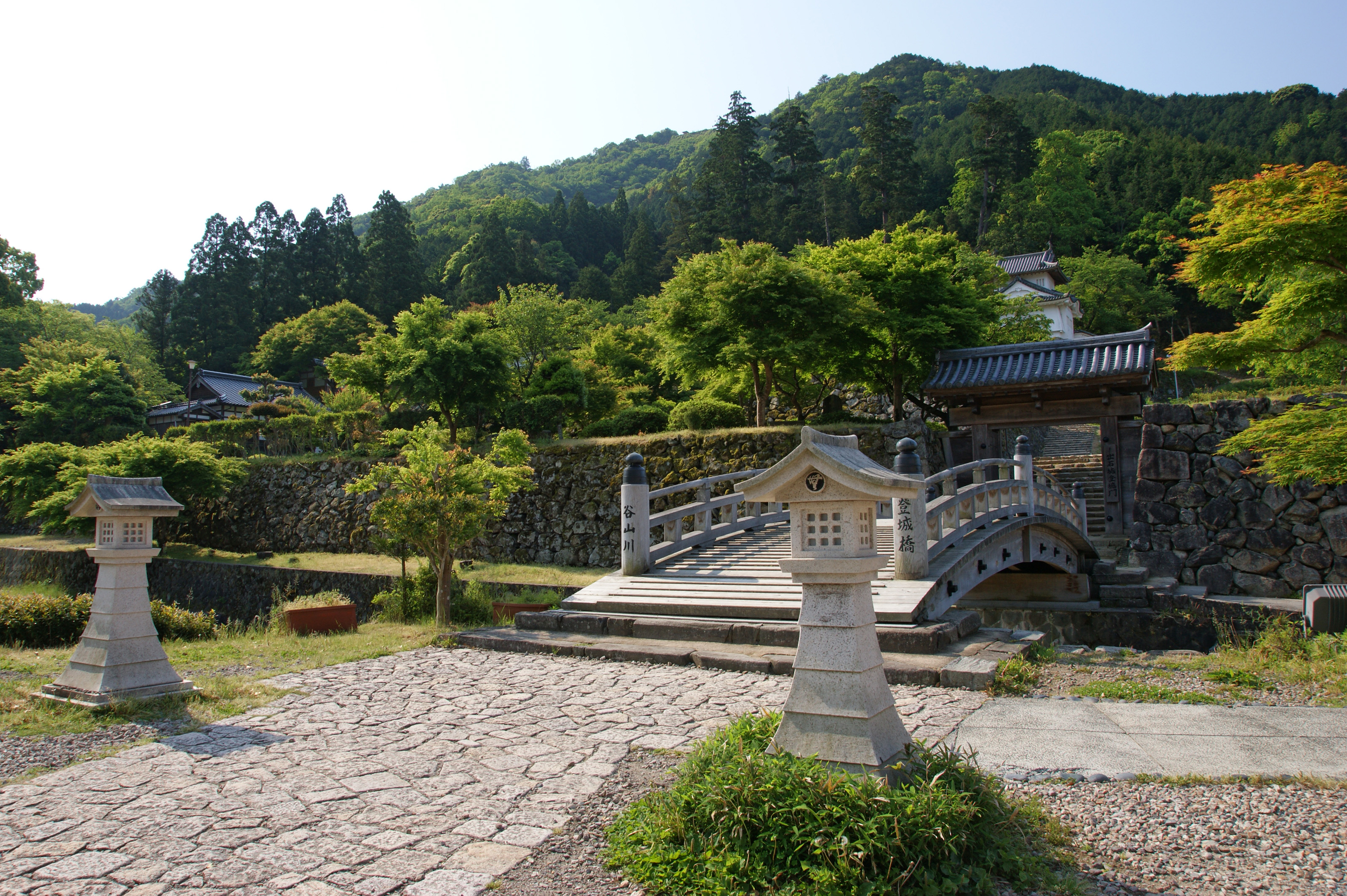 Izushi Castle in Toyooka, Hyogo prefecture, Japan